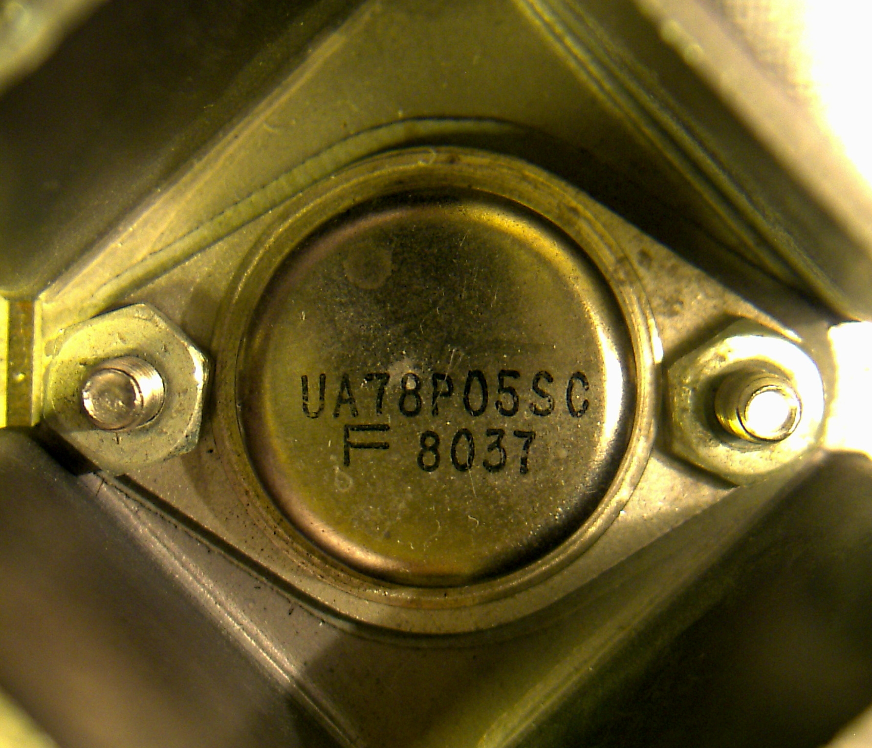 Hybrid voltage regulator, rated to 5V and 10A. Encapsulated in a TO-3 package